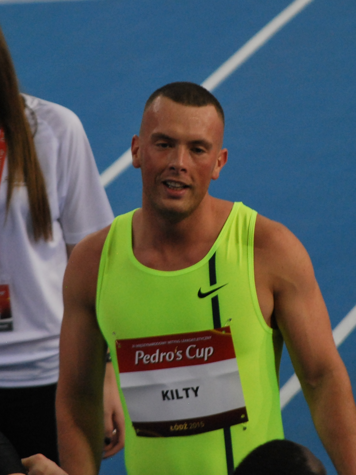 Pedros Cup 2015 Łódź, Richard Kilty, sprinter from the UK